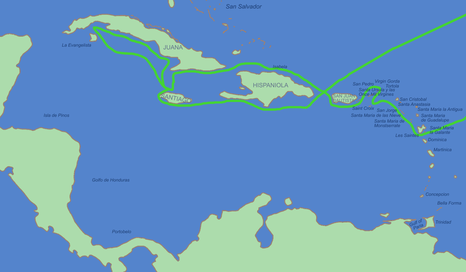 Second voyage of Columbus. Map uses the original Spanish names which Columbus would have known the locations as. The map should show arrows to represent which way they got in and which way they got out.